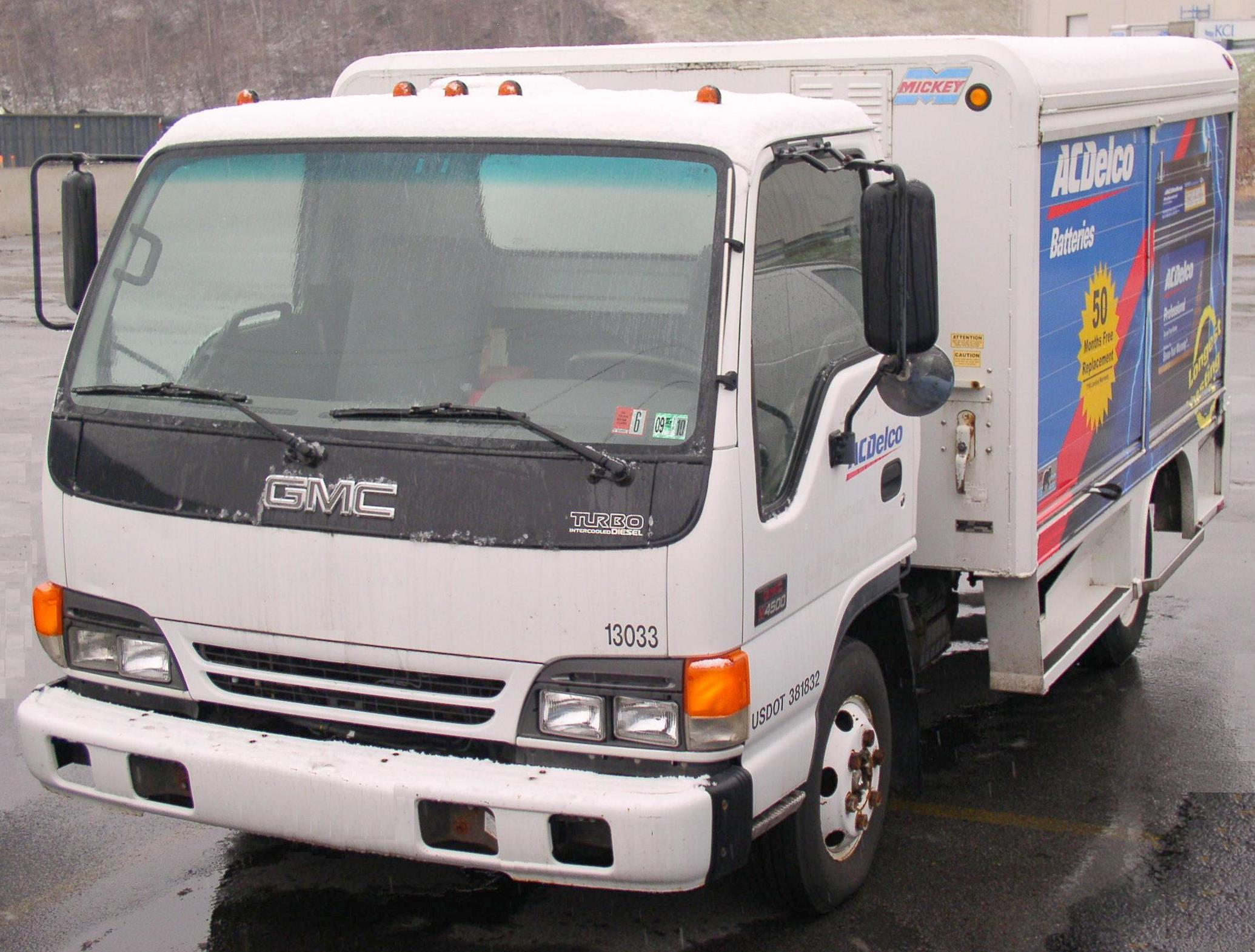 GMC Trucks AC Delco Batteries route delivery truck with Mickey side-loader battery truck.